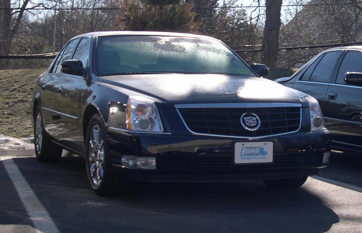 2006 Cadillac DTS Performance edition with body-colored grille